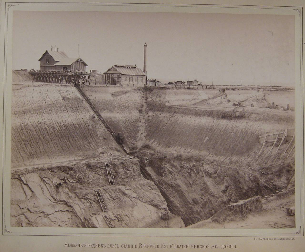 Iron Mine (near Kryvyi Rih)